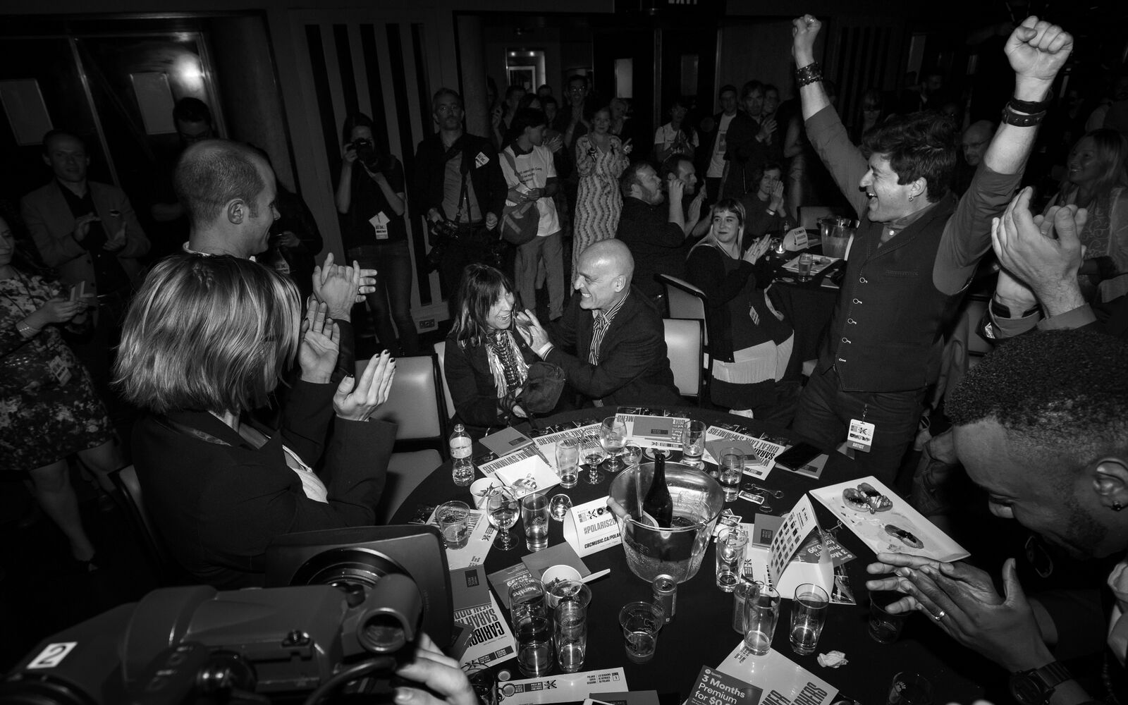 Buffy Sainte-Marie wins the 2015 Polaris Music Prize. Photo by Dustin Rabin.